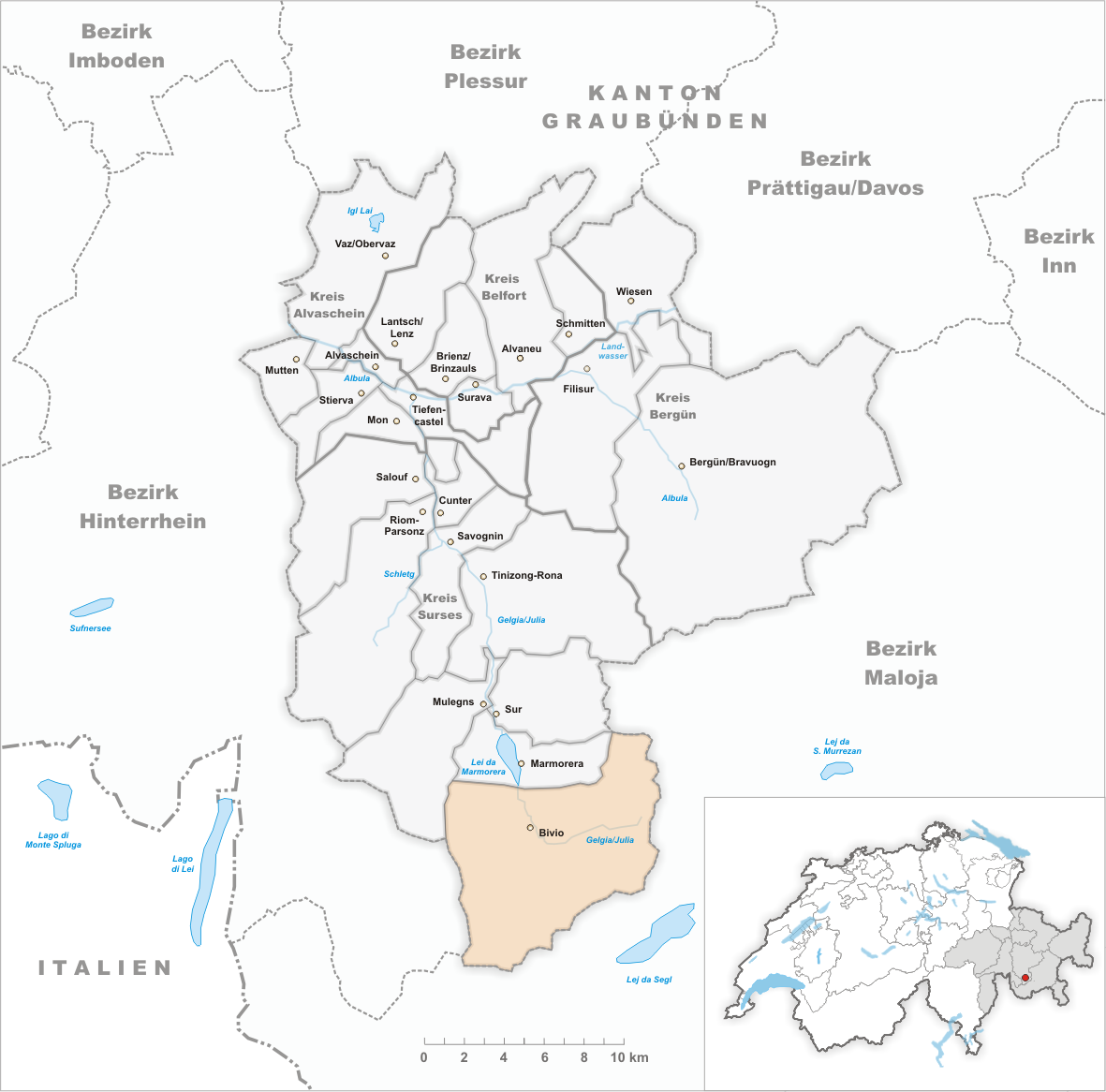 Municipality Bivio